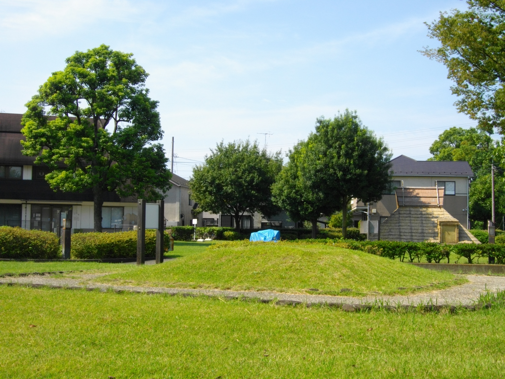 Iko Historical Park